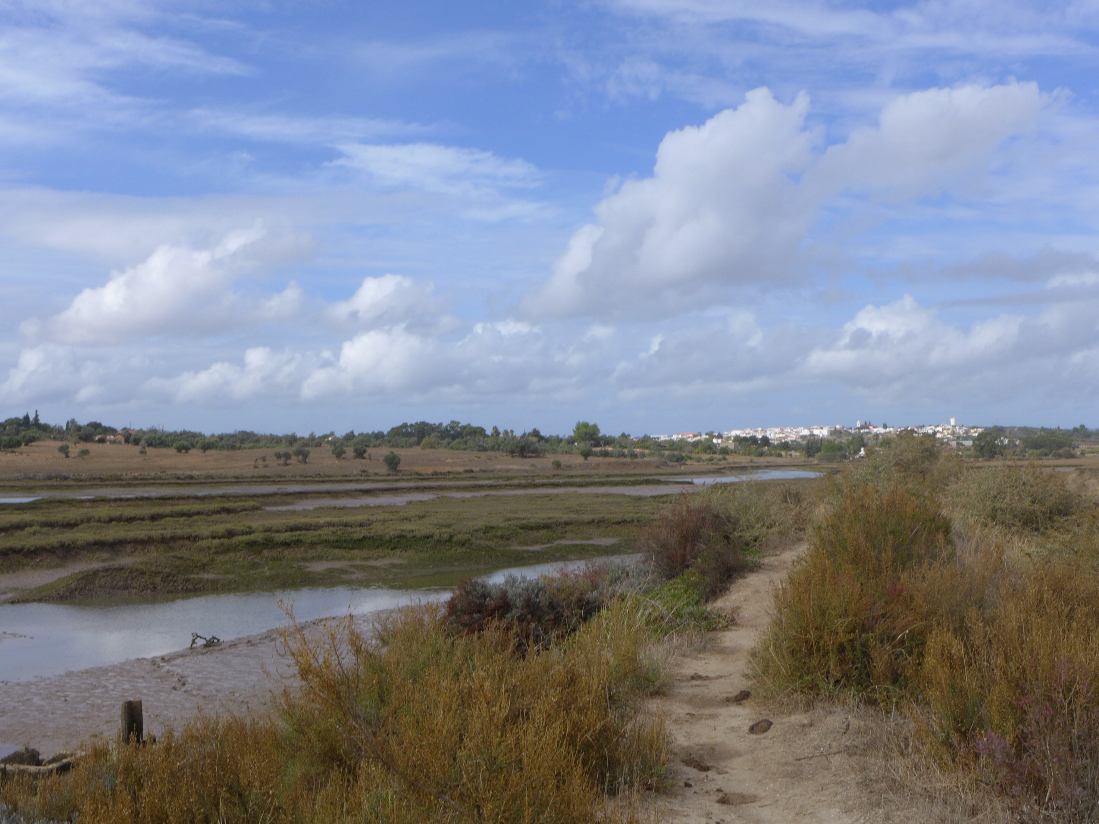 The Alvor Estuary is separated from the sea by two sand dunes and this gives birth enclosing a coastal lagoon, and alongside the surrounding wetlands and the peninsulas of Quinta da Rocha and Abicada, make up an area of over 1454 hectares. Estuarine plants include: Atriplex (saltbush,orache), Suaeda fruticosa (shrubby seablight), Salicornia europaea (glasswort), Sarcocornia sp. (samphires, saltworts), Suaeda maritima (annual seablite), Suaeda sp. Salsola soda (saltwort), Salsola sp., Halimione portulacoides (sea purslane) , Spartina maritima (small cordgrass), Zostera noltei (dwarf eelgrass) , Beta, Sonchus, Juncus.